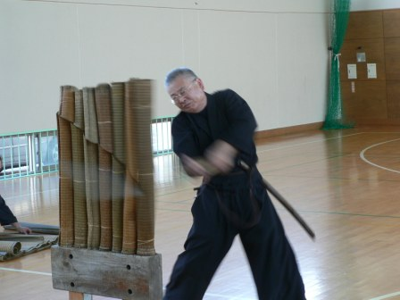 shizan7jyoumaki